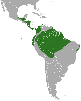 Pygmy Anteater (Cyclopes didactylus) range